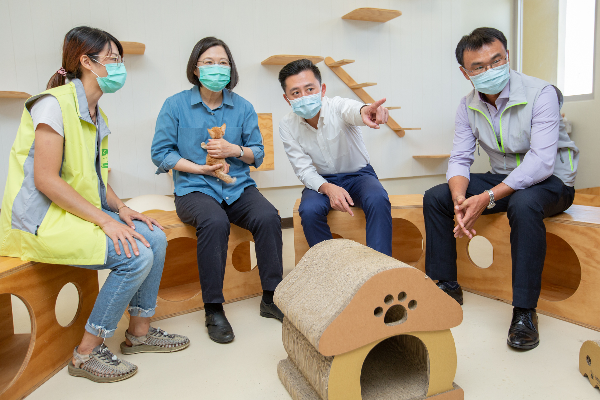 Official Photo by Wang Yu Ching / Office of the President